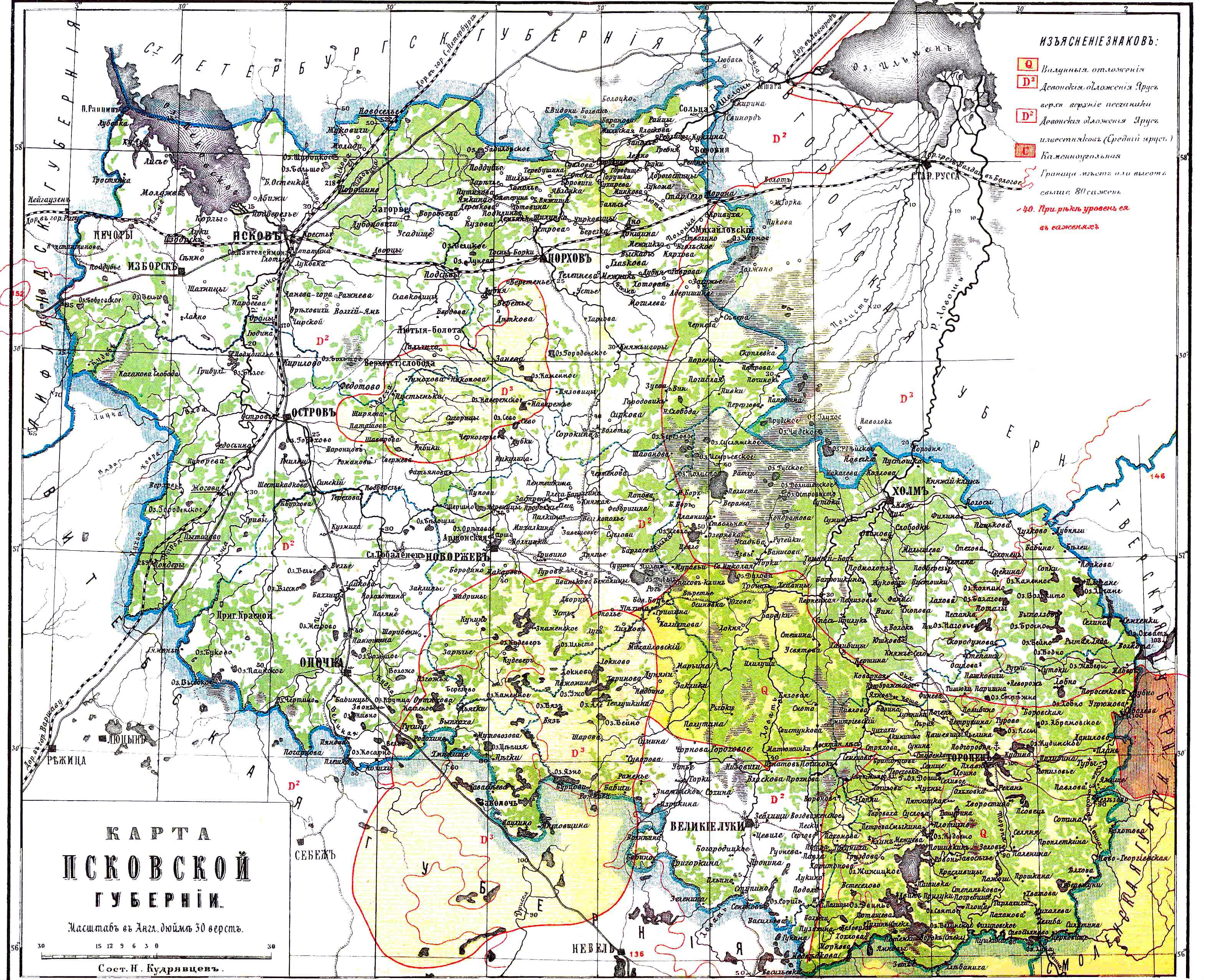 Illustration from Brockhaus and Efron Encyclopedic Dictionary (1890—1907)